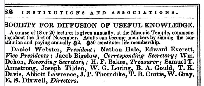 Listing for the Boston Society for the Diffusion of Useful Knowledge